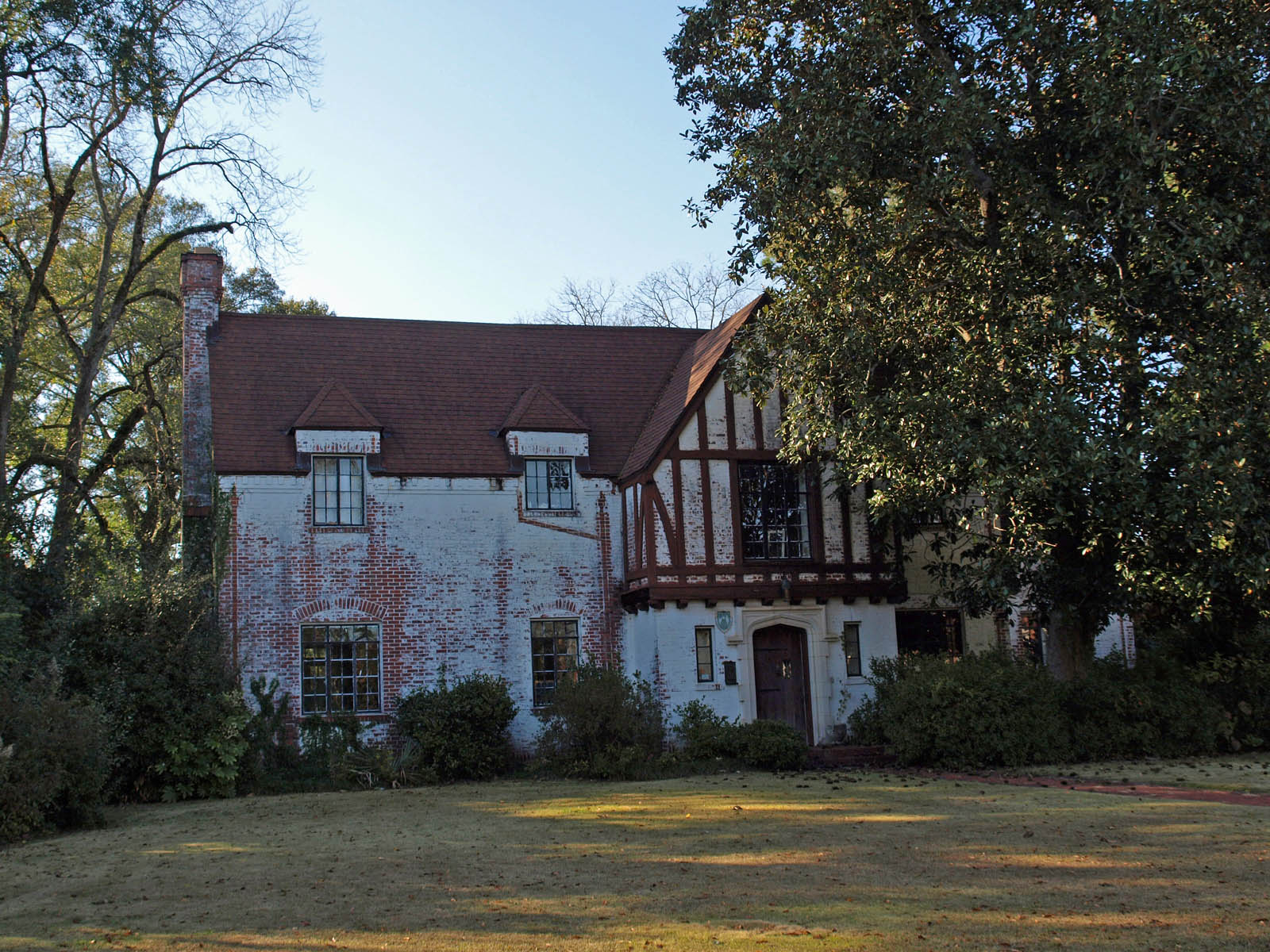 The W. S. Blackwell House in Greenville, Alabama, listed on the National Register of Historic Places